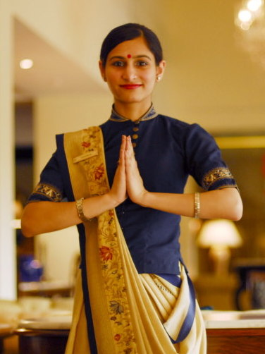 An employee of the Oberoi Hotel at New Delhi doing Namaste, a traditional Indian greeting.